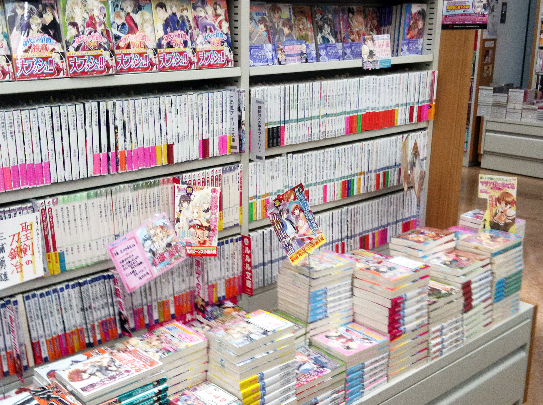 Part of the mangaLight novels section at Maruzen